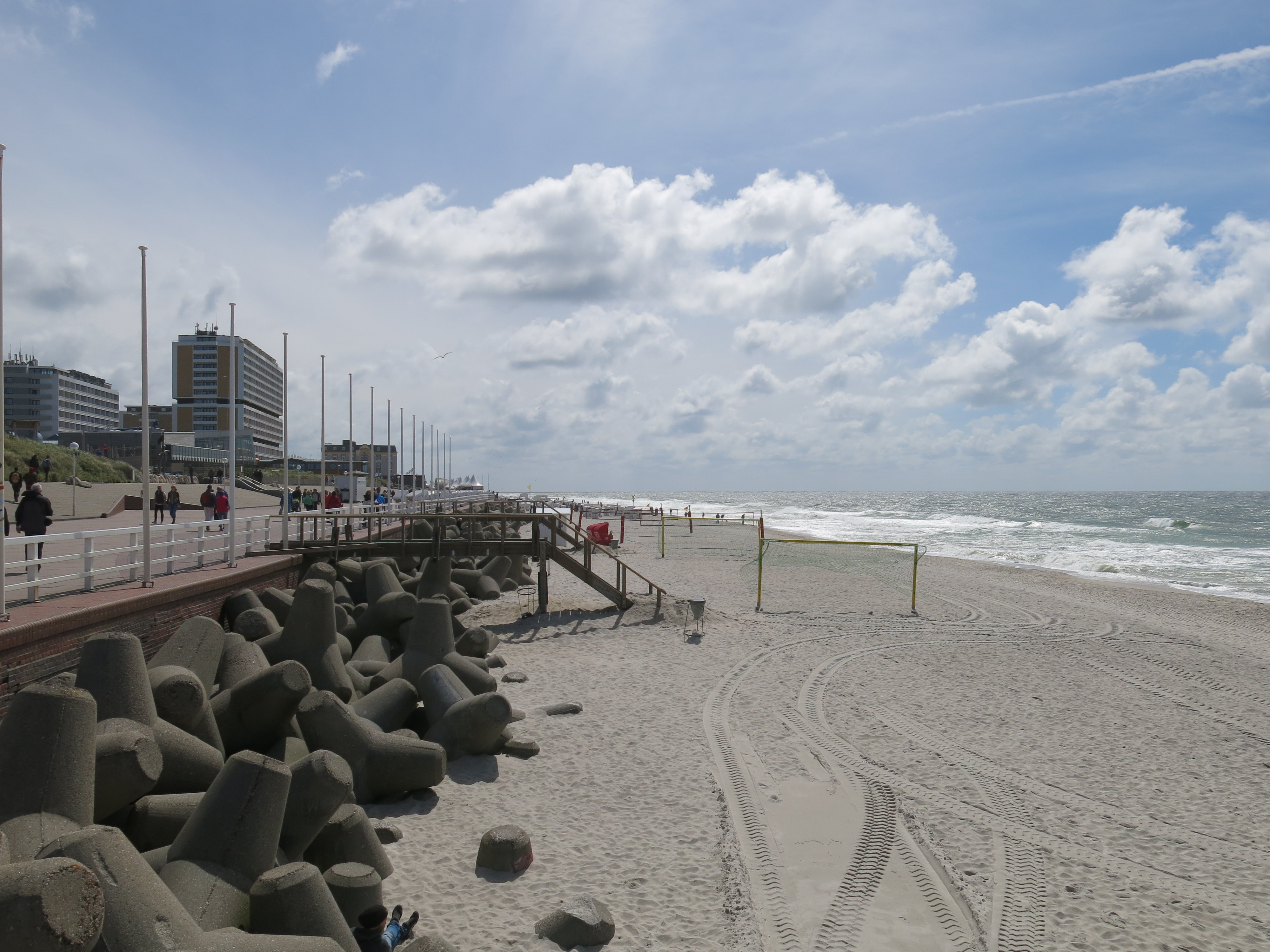 Beach of Westerland on the German North Sea island of Sylt looking southward